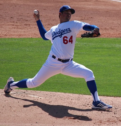 Zach Lee pitching for the Dodgers in spring training